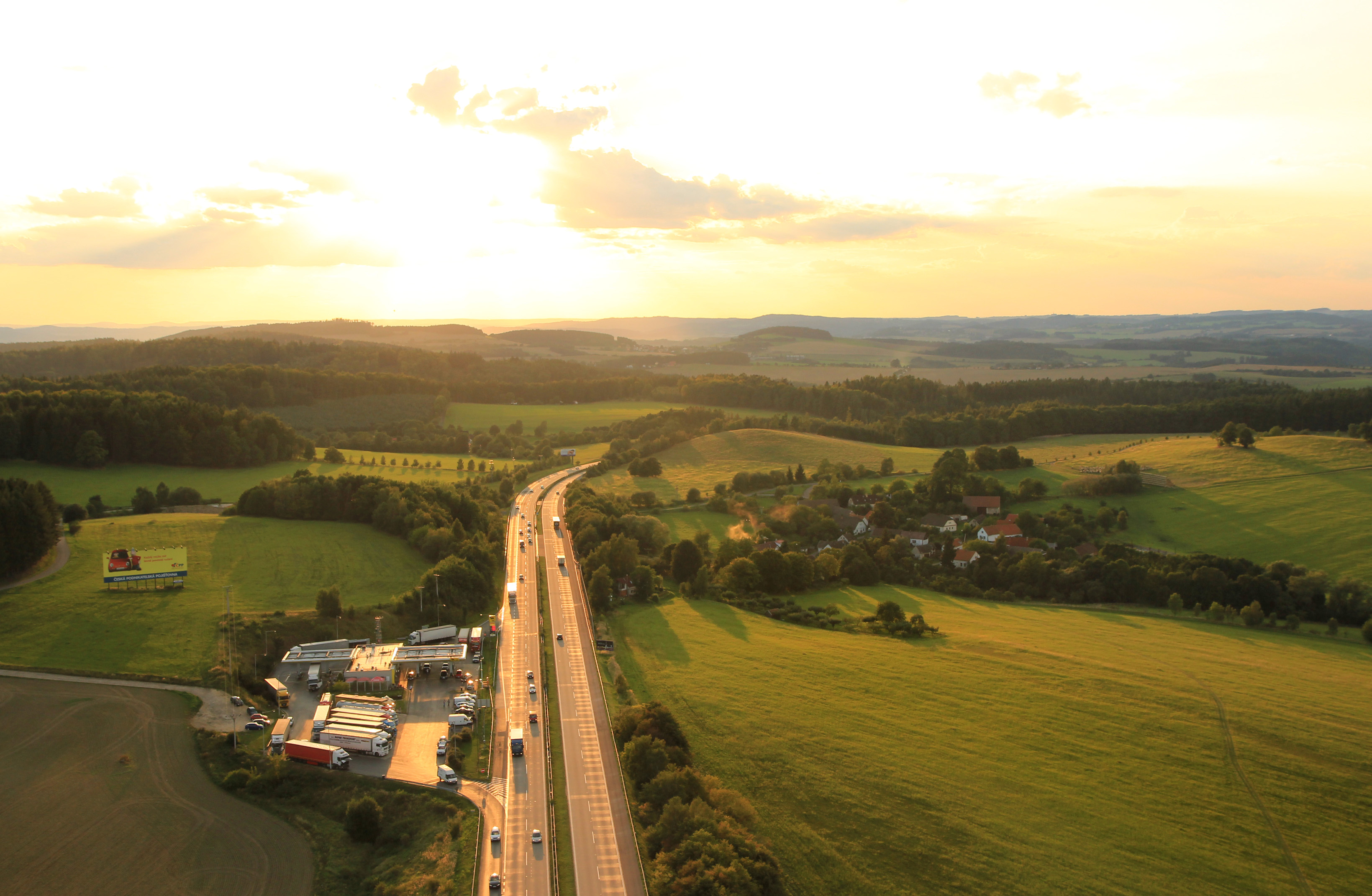 Motorway D1 near Ostředek village, Czech Republic